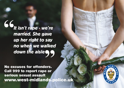 These photographs form part of our Rape and Serious Sexual Offences campaign. Sex offenders who delude themselves by thinking they have done absolutely nothing wrong are targeted by the force's hard-hitting campaign aimed at raising awareness of what actually constitutes a sexual assault and also to encourage victims to report crimes to police. The campaign is backed by 'Louise' who was raped by a man she met in a West Midlands nightclub. He was later jailed for six years. Listen to her story here: is.gd/Khld2s. Learn more about our campaign here: is.gd/vDi9B1.